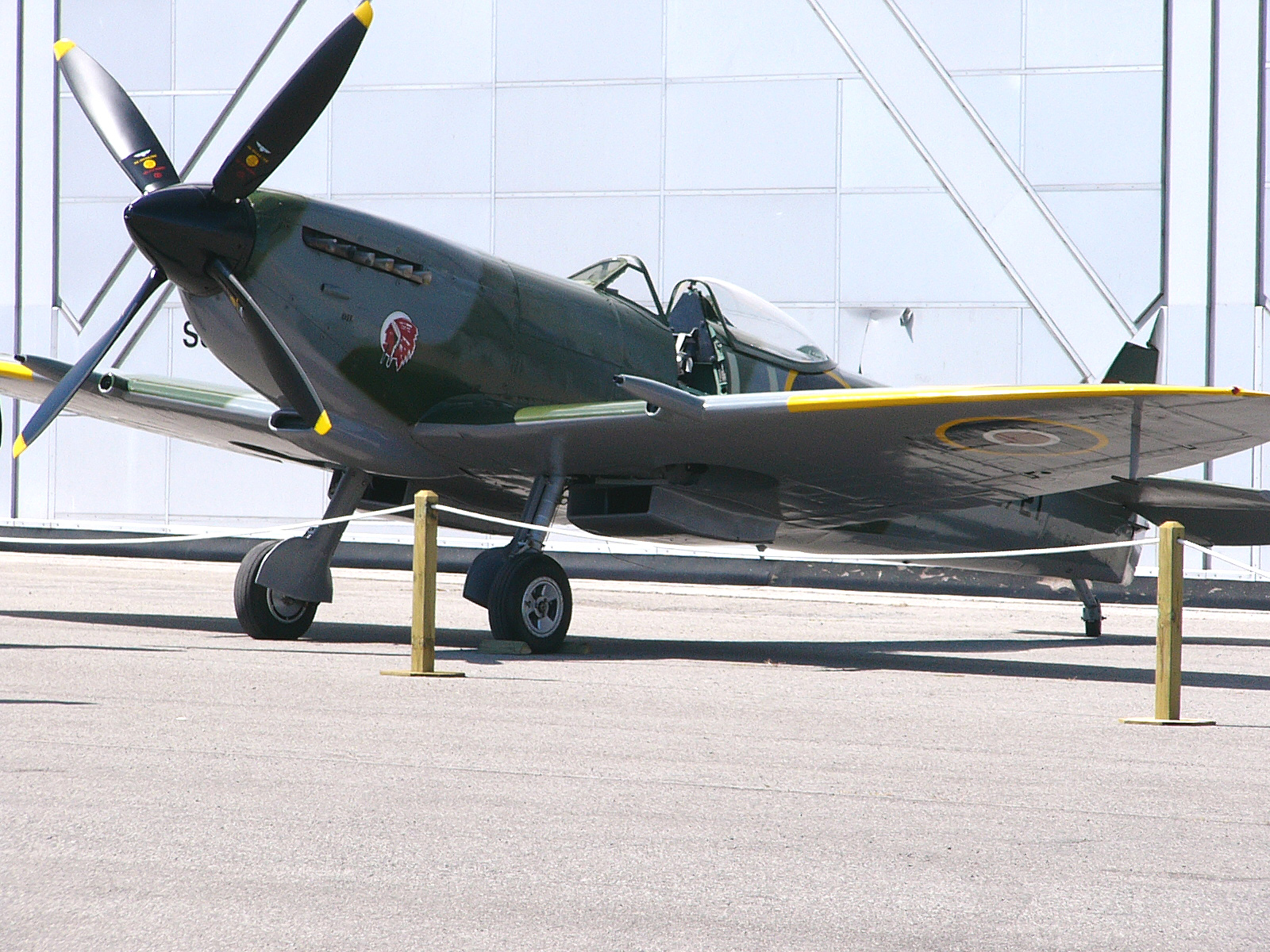 Supermarine Spitfire Mk XVI belonging to Vintage Wings of Canada